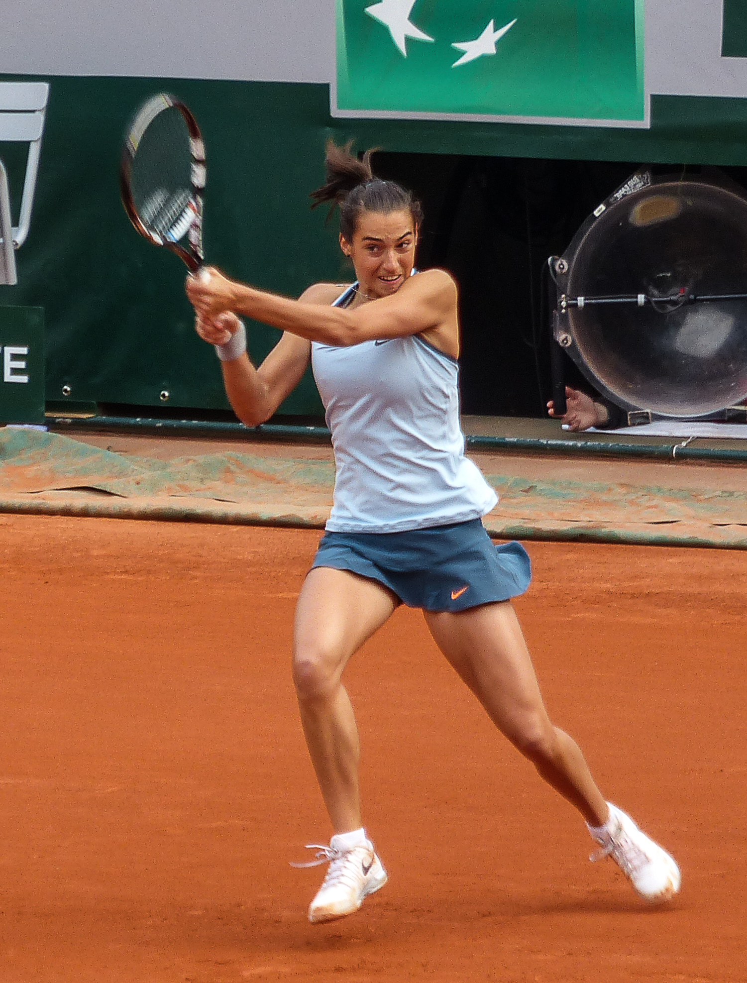 2ème tour Roland Garros 2013 : Serena Williams (USA) def. Caroline Garcia (FRA)